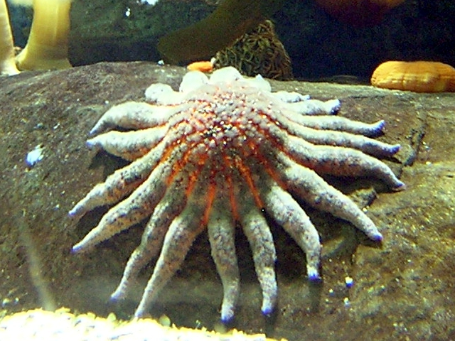 Pycnopodia helianthoides. Sunflower sea star. L'Oceanographic (Valencia)